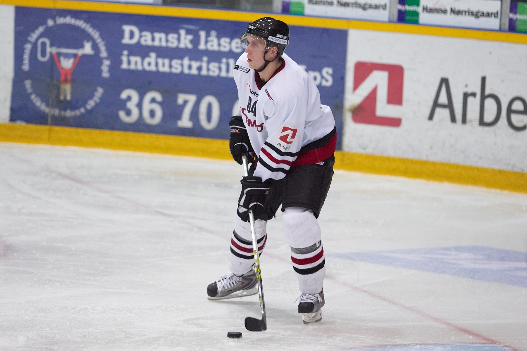 Mr. Philip Hersby in action.